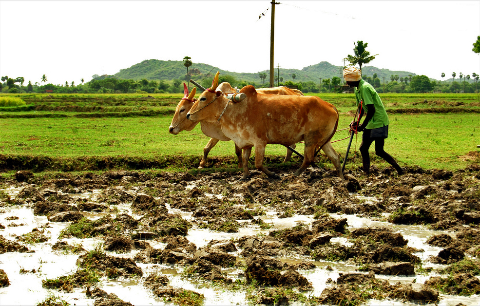 land has form for rice making